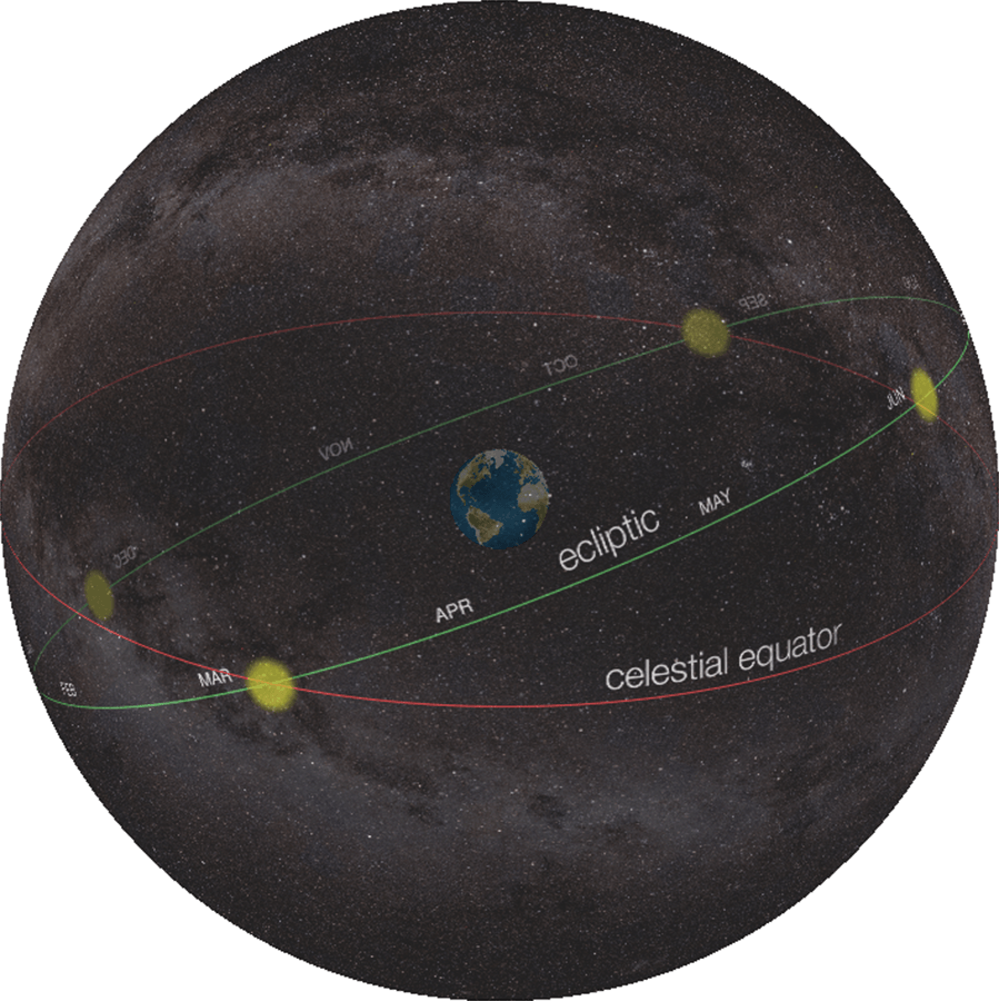 A 3D depiction of the celestial sphere with the sky "wrapped" around Earth at the center. The ecliptic is shown, along with locations of the Sun in the sky at equinoxes and solstices.